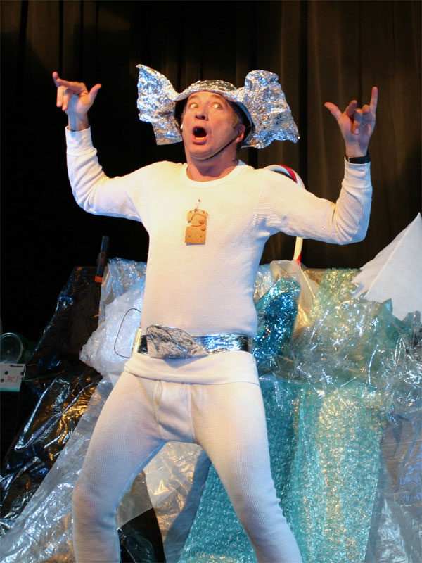 Description: Photograph of Paul Zaloom performing. Source: Photograph taken by 01 November 2004. Copyright: © Jared C. Benedict (redjar).